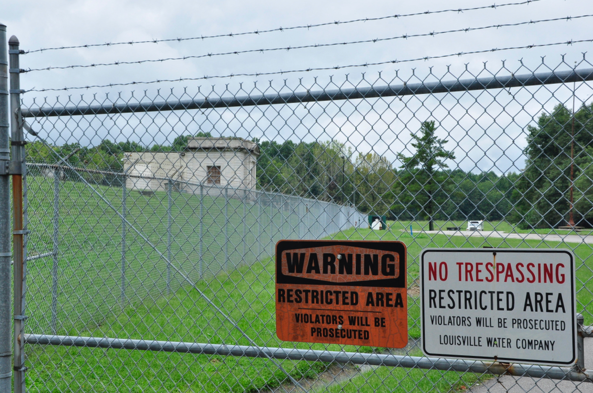 the significant Cardinal Hill Reservoir located in Jefferson County, Louisville Kentucky (listed on the National Register of Historic Places in 1980) is strictly off-limits